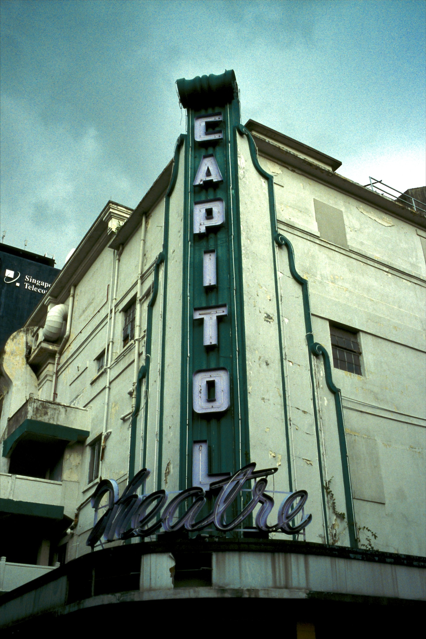 Capitol Theatre, part of Capitol Building in Singapore, which was a cinema between 1931 and 1998.